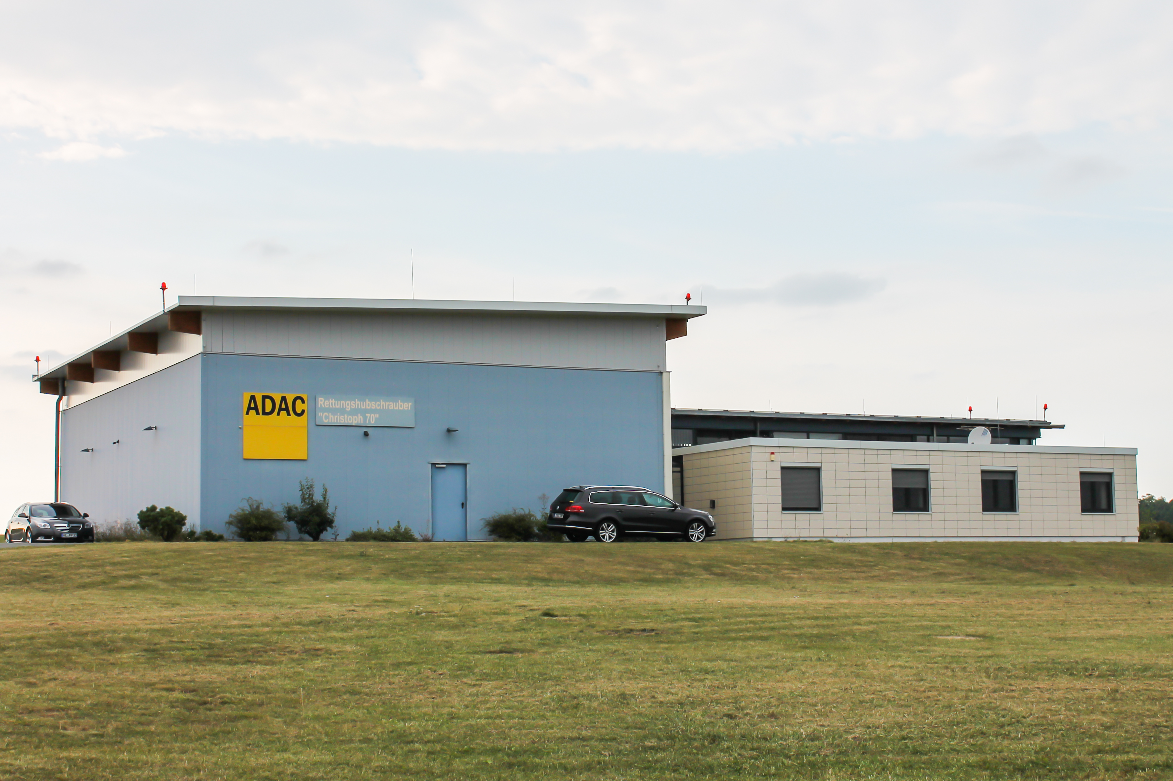 Hangar of the ADAC air ambulance helicopter Christoph 70 at Airfield Jena-Schöngleina.